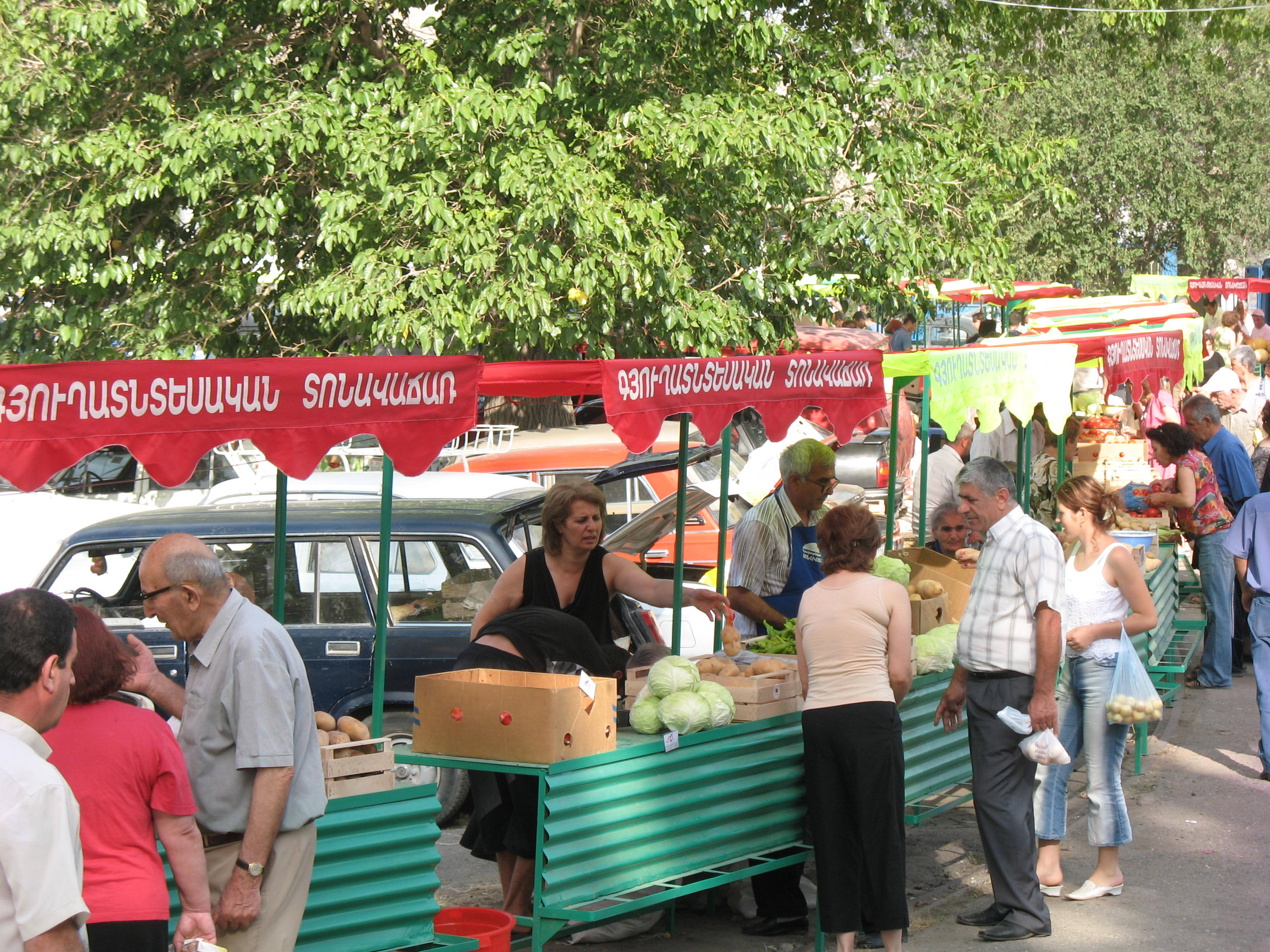 Agricultural Bazaar in Armenia.